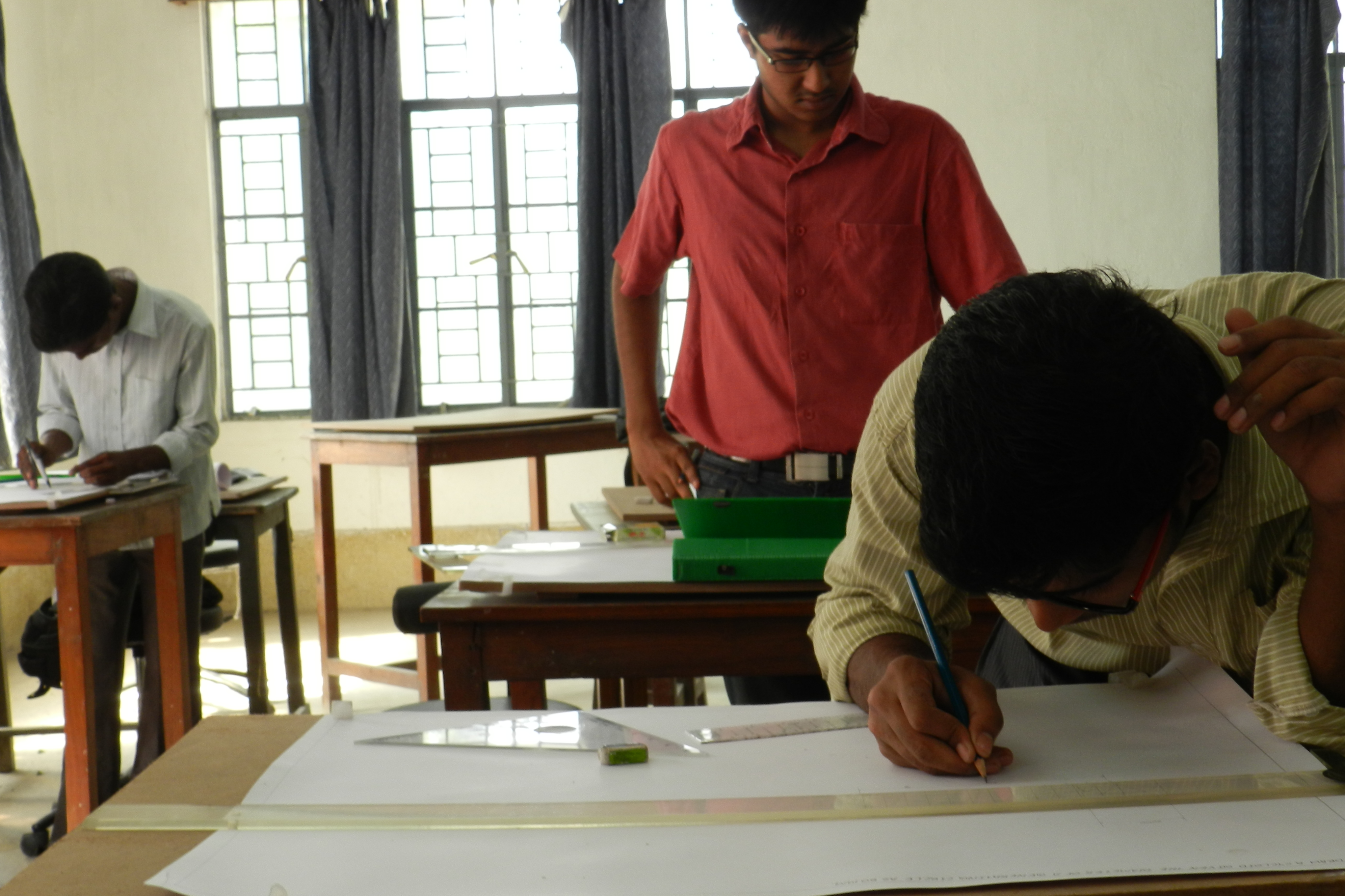 mech draw lab